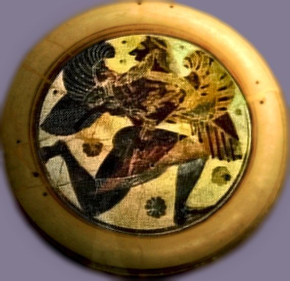 Collection of Classical Antiquities at the Altes Museum, Berlin: Mythological figure of a winged daemon pictured in Corinthian plate (digital restoration)}